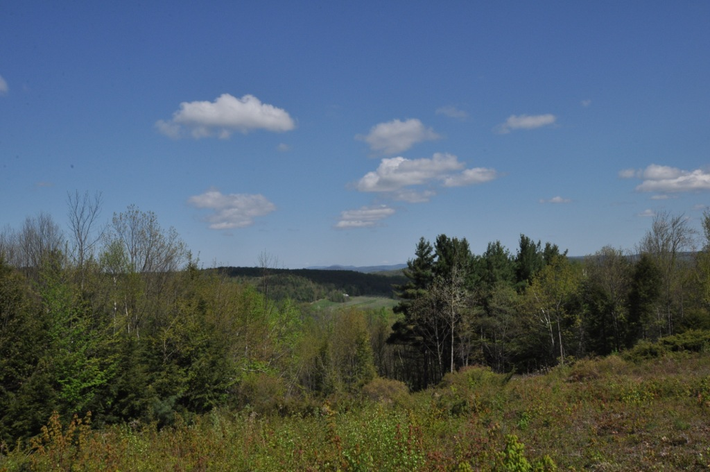 View from Apple Valley lookout, Bear Swamp Reservation, Ashfield, Massachusetts